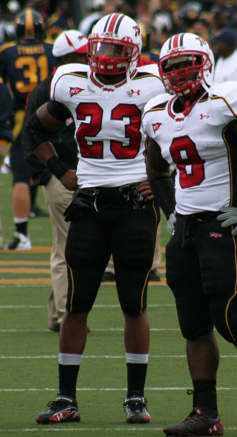 Maryland Terrapins running backs Da'Rel Scott (left, #23) and Davin Meggett (#8) at Memorial Stadium in Berkeley, California during the 2009 California-Maryland football game.